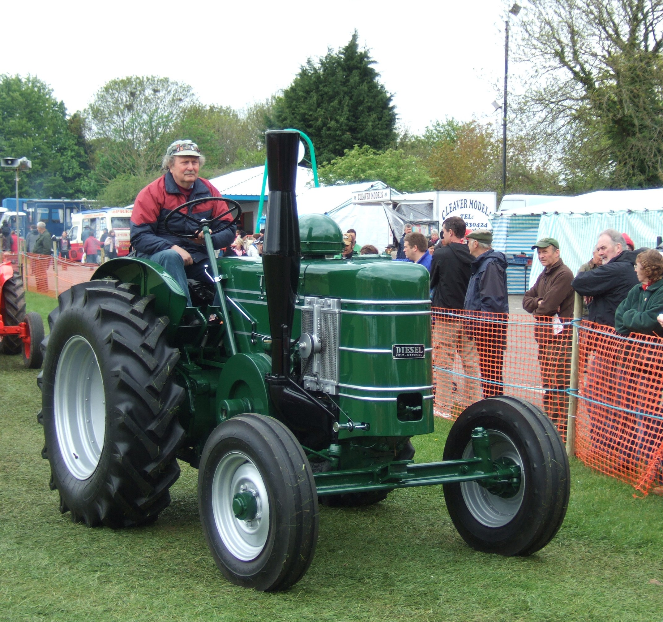 Field Marshall single cylinder diesel tractor. Castle Combe steam rally, 2010.